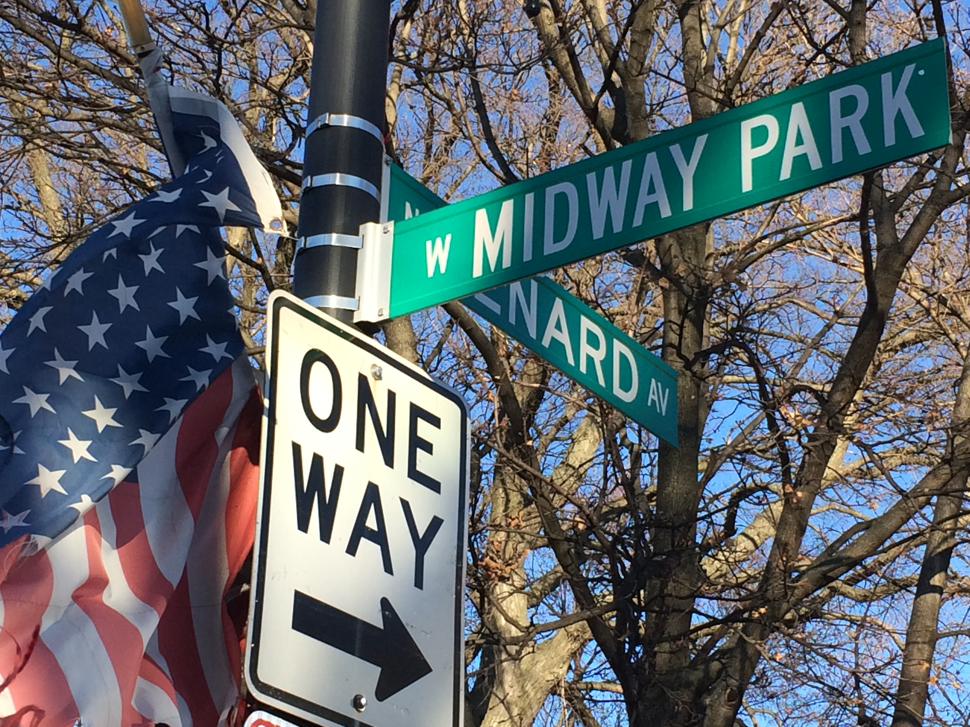 Street sign at corner of Midway Park and Menard in Midway Park, Austin, Chicago, il